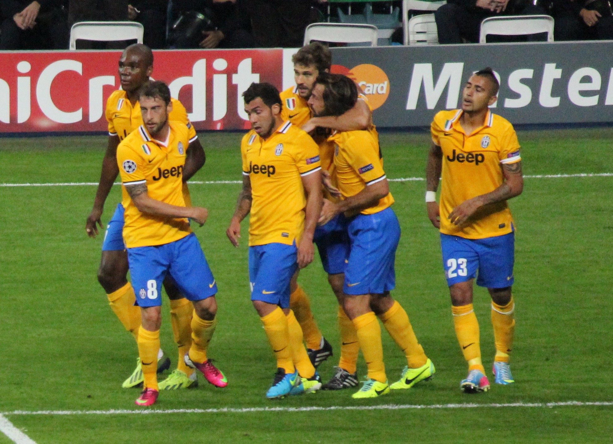 Real Madrid vs Juventus, 24 October 2013 Champions League